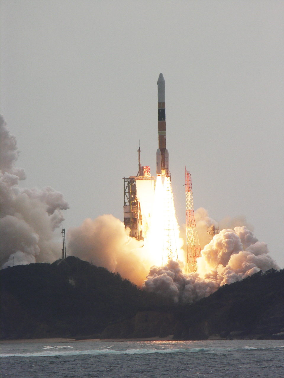 H-IIA Launch Vehicle Flight 12, launching Information Gathering Satellite (IGS) Radar 2